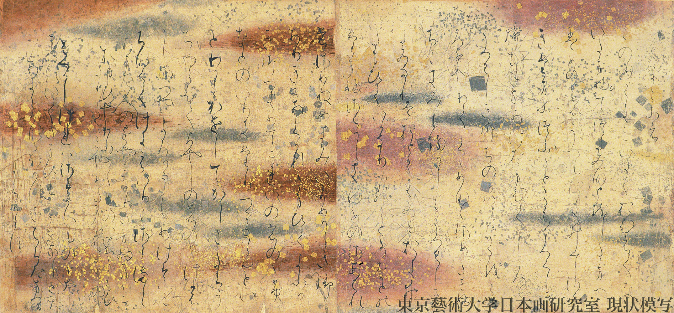 A Calligraphy of the Chapter "YOKOBUE "(Flute) of Illustrated handscroll of Tale of Genji (written by MURASAKI SHIKIBU(11th cent.). Ink on Ornamented Paper(Colour Gold Foil, etc). The handscroll was made in about ACE1130 and stored in TOKUGAWA Museum, Japan. The handscroll were separated to each sections and mounted to frame for conservation.